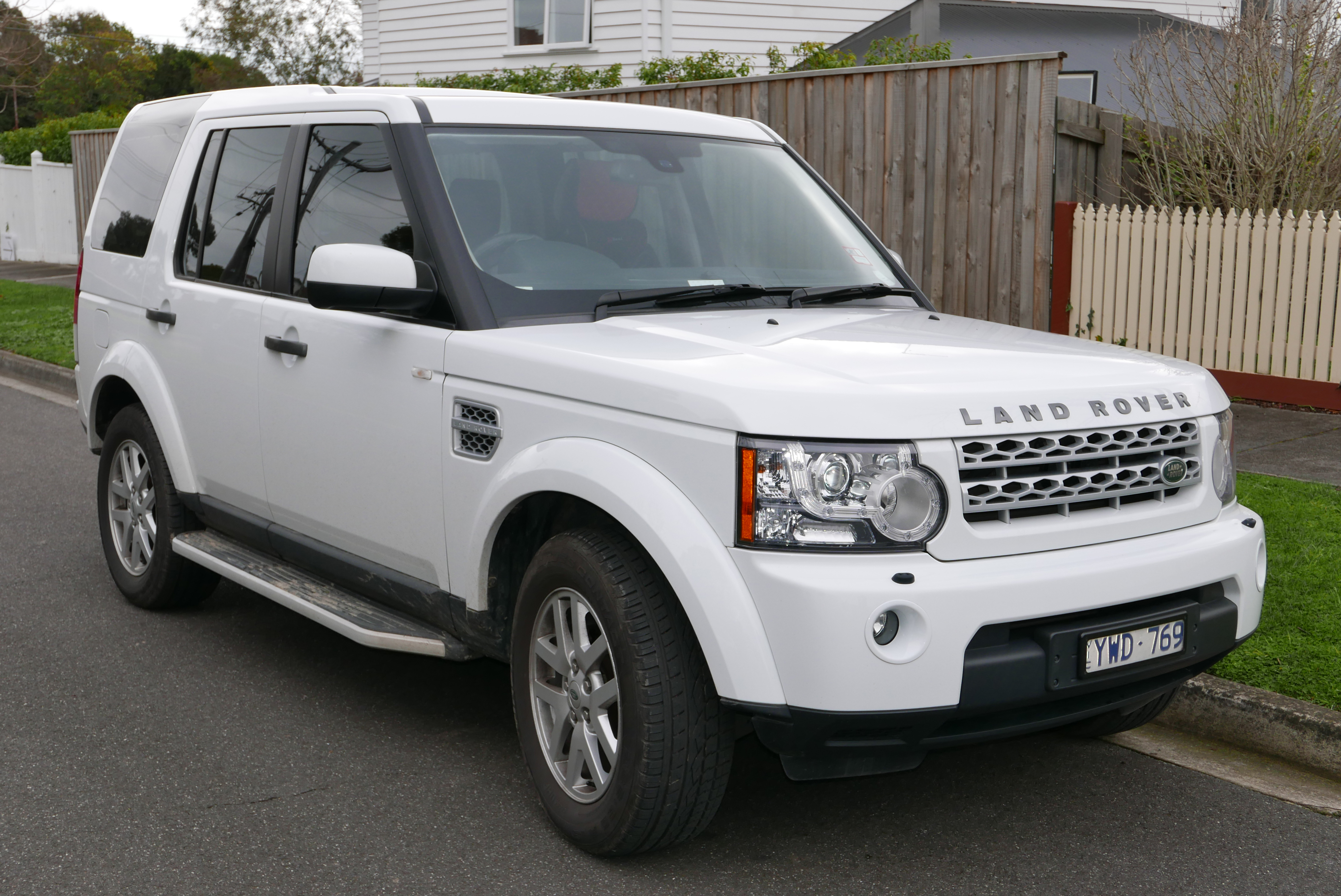 2012 Land Rover Discovery 4 (L319 MY12) TDV6 wagon. Photographed in Box Hill North, Victoria, Australia. Vehicle registration enquiry resultsJurisdictionVictoriaRegistrationYWD769Chassis codeSALLAAA13CA614721Engine code0608840276DTCompliance date2012-03Year of manufacture2012